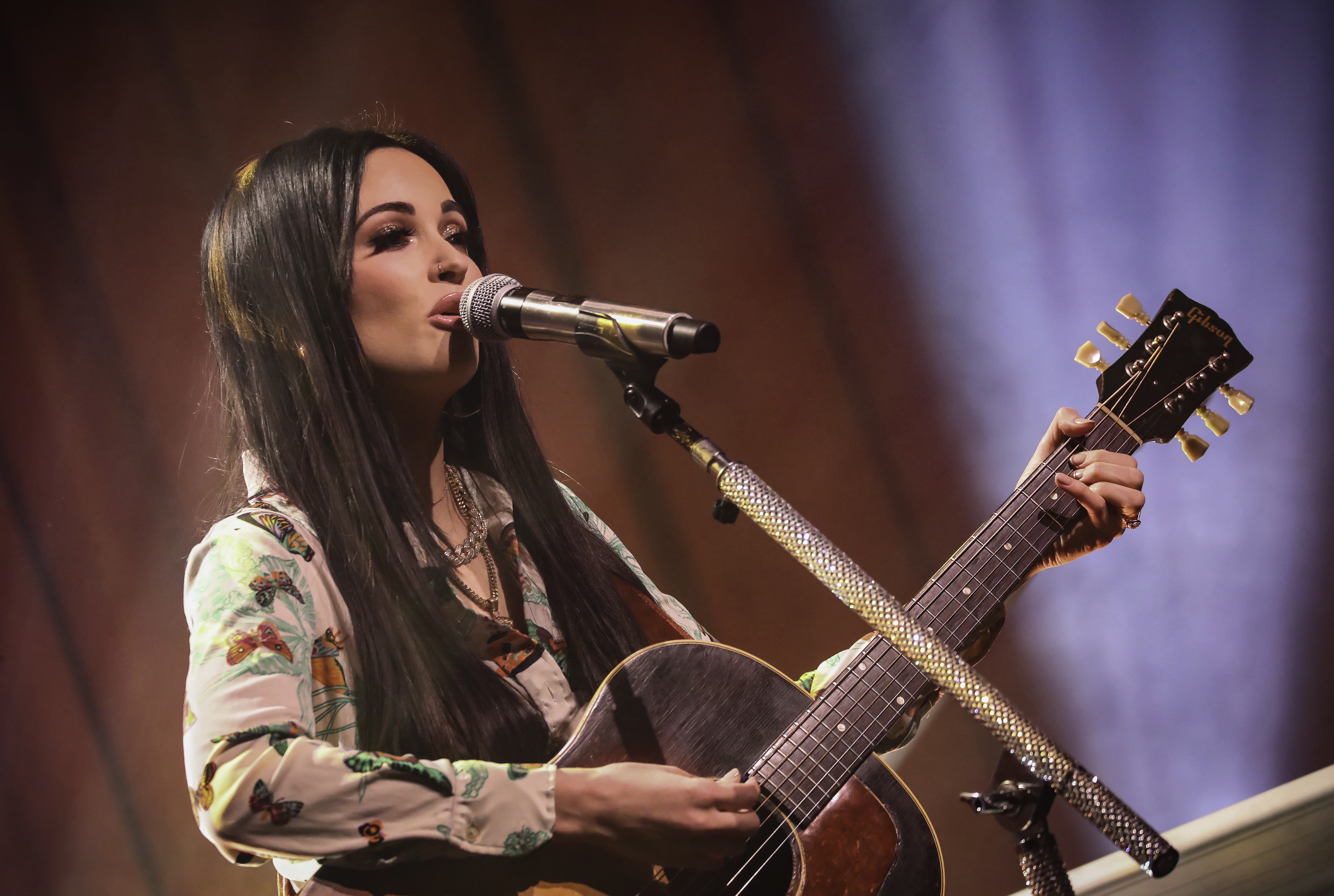 Kacey Musgraves - Palace Theatre St. Paul